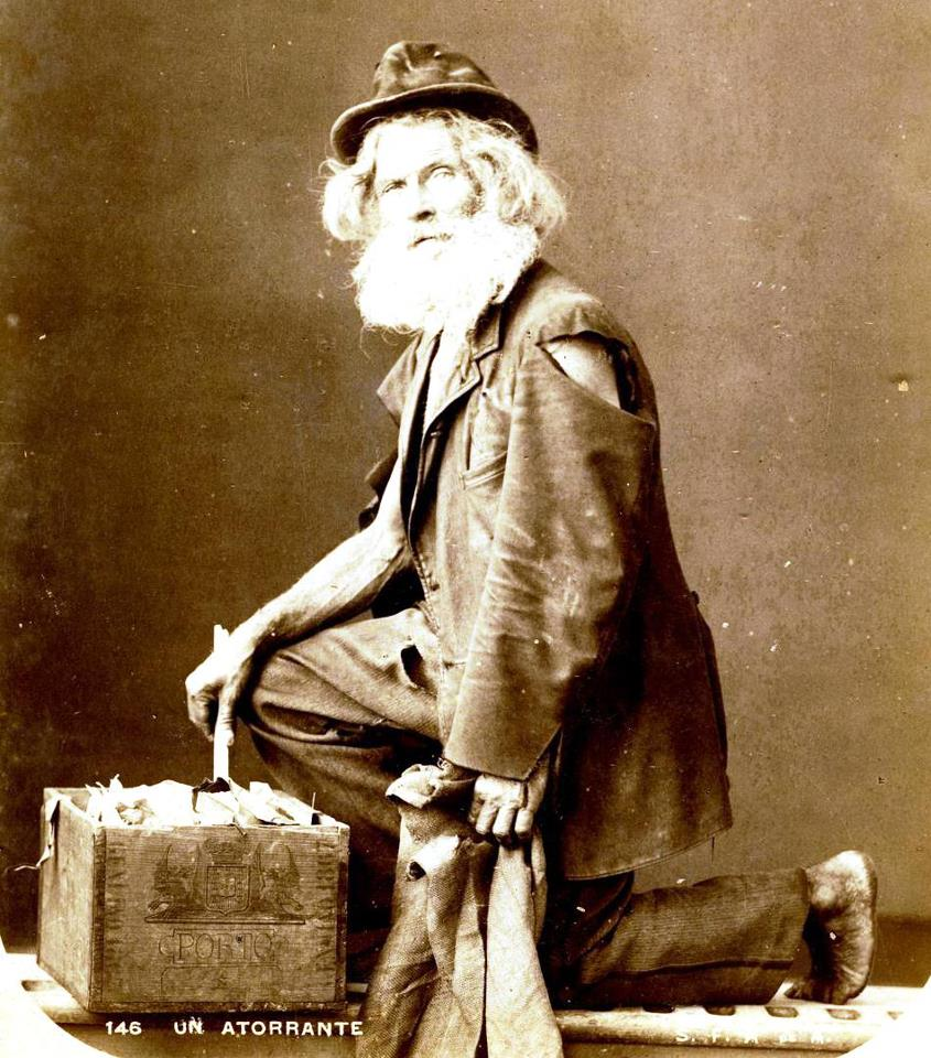 Buenos Aires, un indigente, fines del siglo XIX